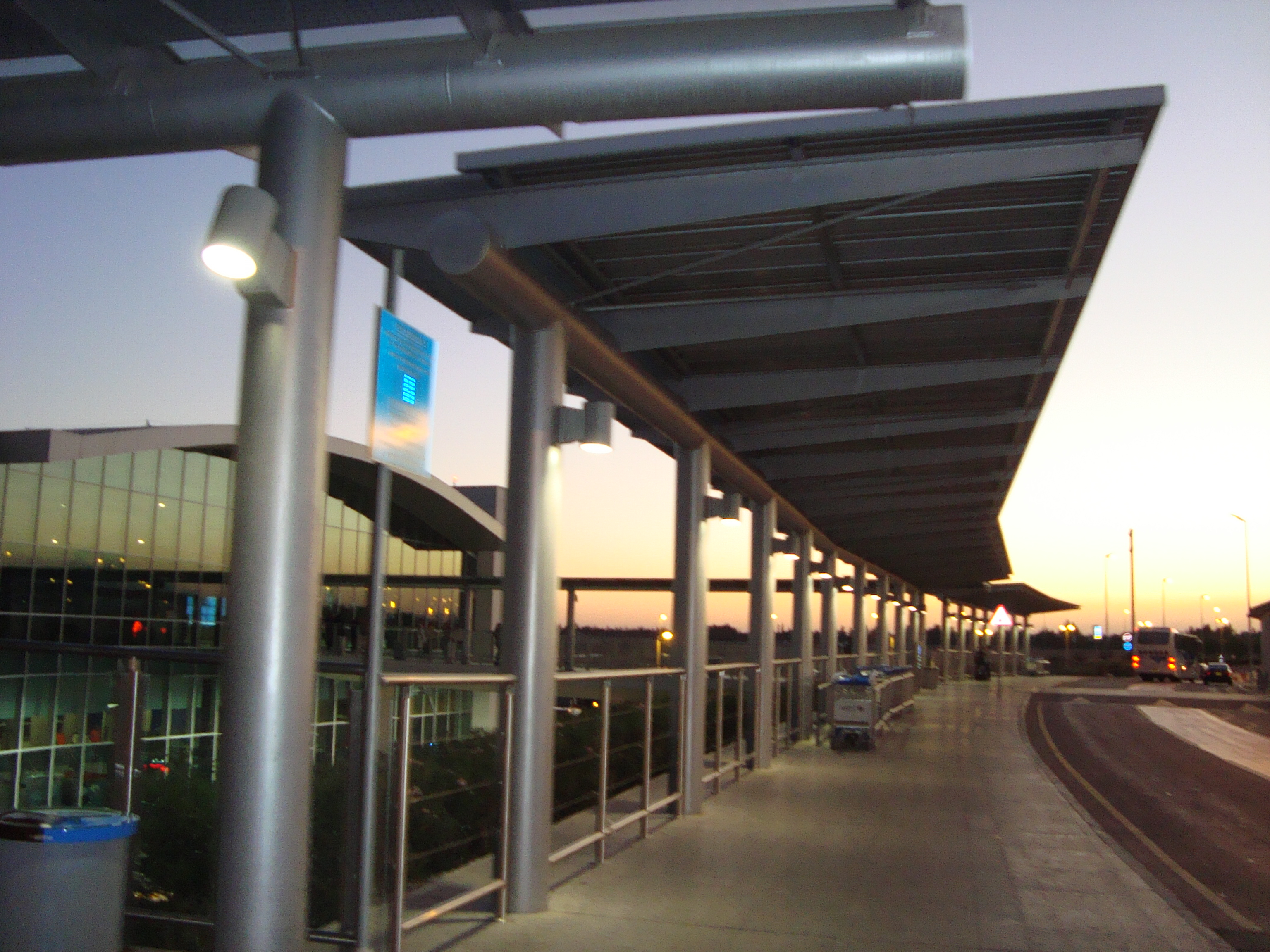 New larnaca, Cyprus International airport which is a hub airport for Cyprus airways